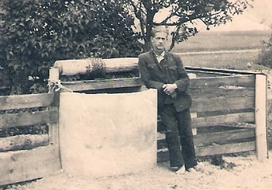 in hiding